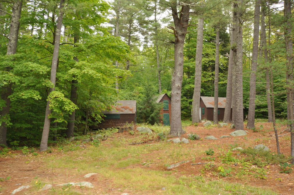 Abenaki Indian Shop and Camp, Conway, New Hampshire. Grove of small cabins.